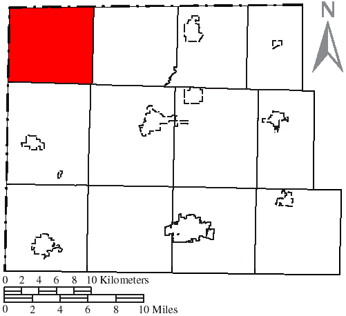 Made by the US Census and modified by myself